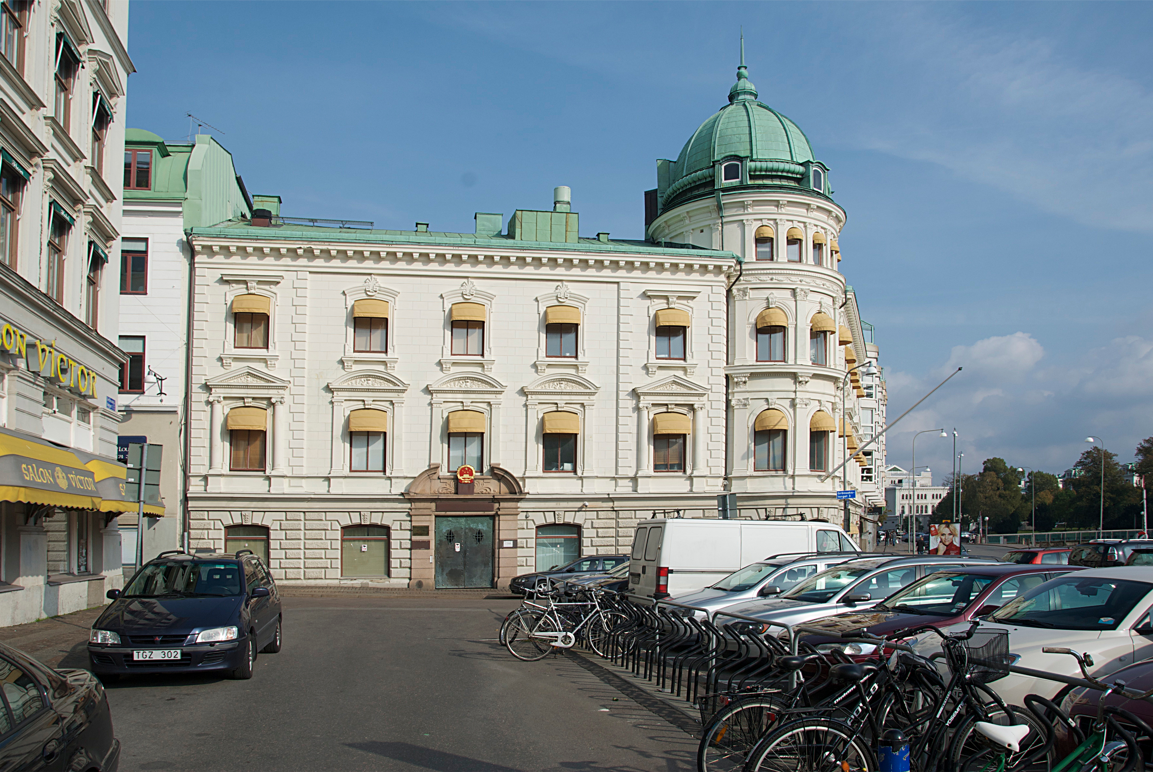 Grönsakstorget, september 2011.